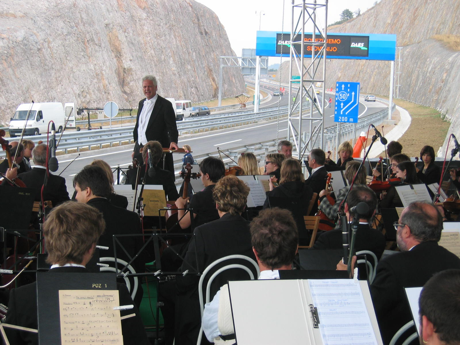 Črni kal viaduct opening with RTV Slovenija Symphony orchestra